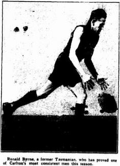 Photo of Ronnie Byrne in 1925